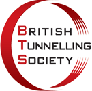 Logo of the British Tunnelling Society